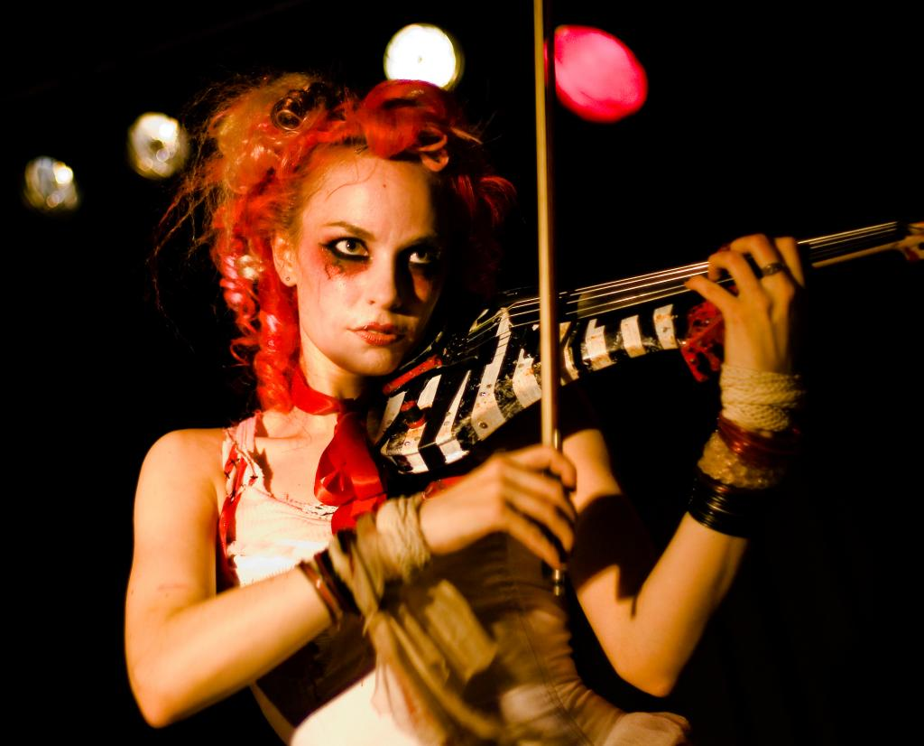 All 91 photos are available in full resolution of up to 10 MP (3872 x 2592) on